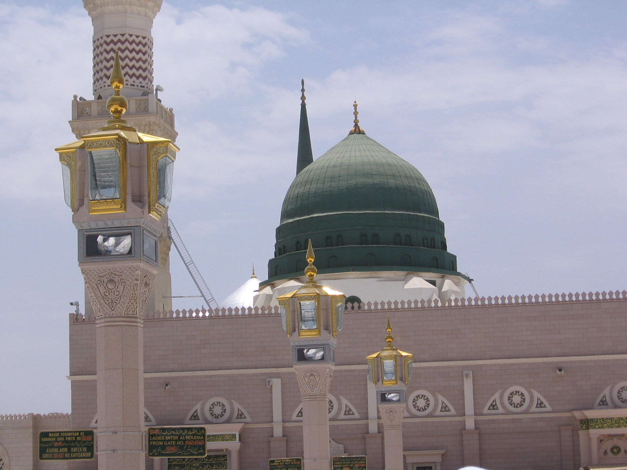 Al-Masjid al-Nabawi in Medina Saudi Arabia